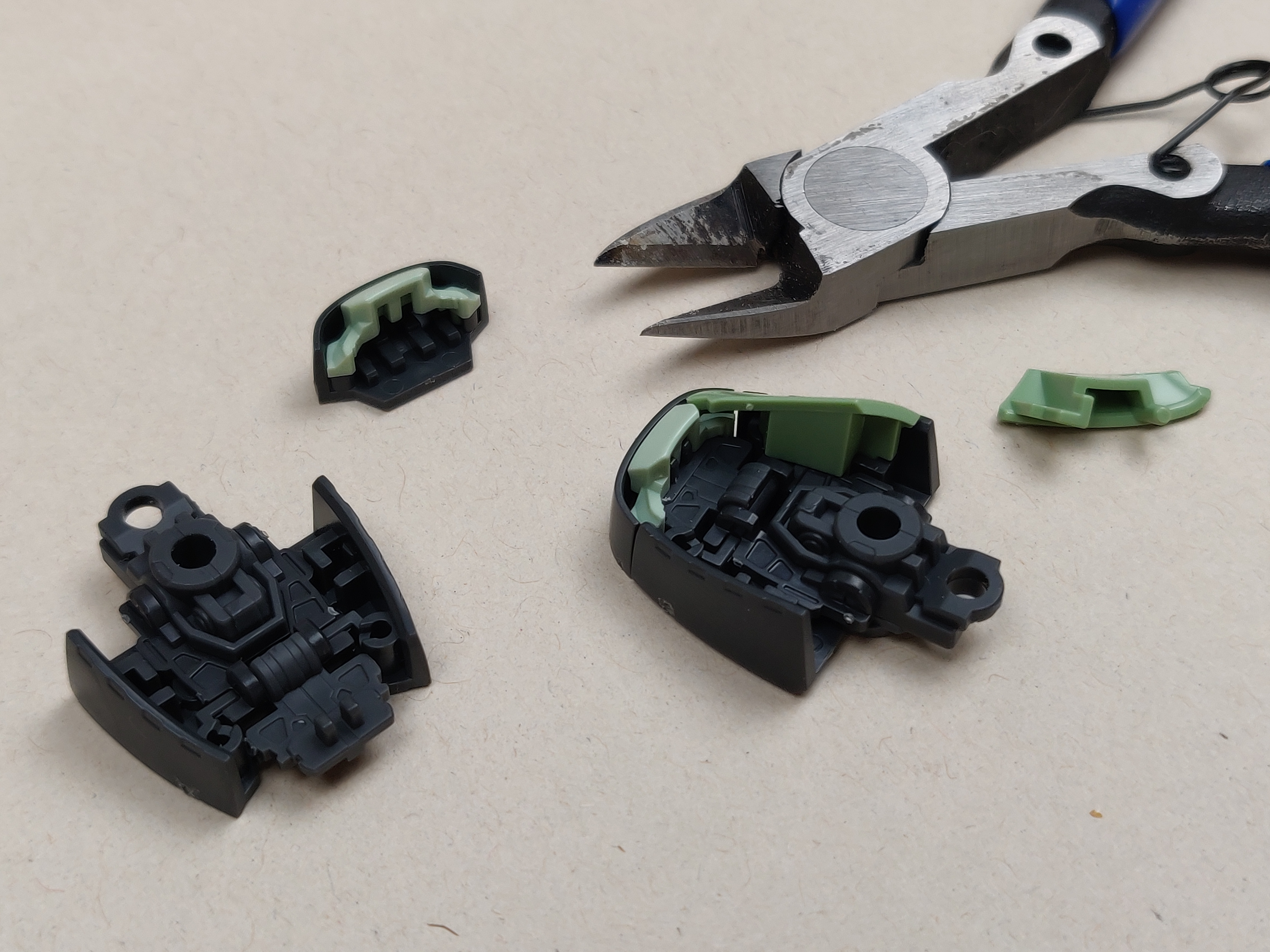 This is a foot unit from a Real Grade MS-06F Zaku II gunpla kit, assembled but not mounted on a leg unit. The picture illustrates the high detail level of these models. The core of the foot unit (excluding the curved 'wings' attached on the left one, and the green "skirts" on the right) is a complete, functioning double-jointed hinge made in three parts.